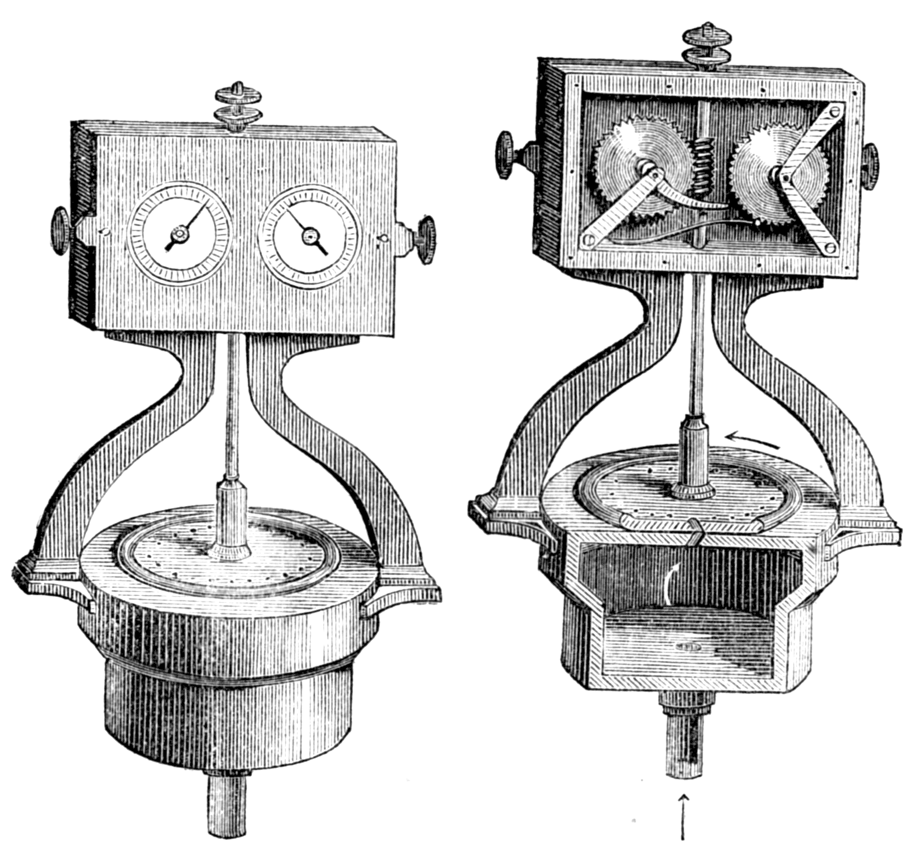 Engraving of an early siren.